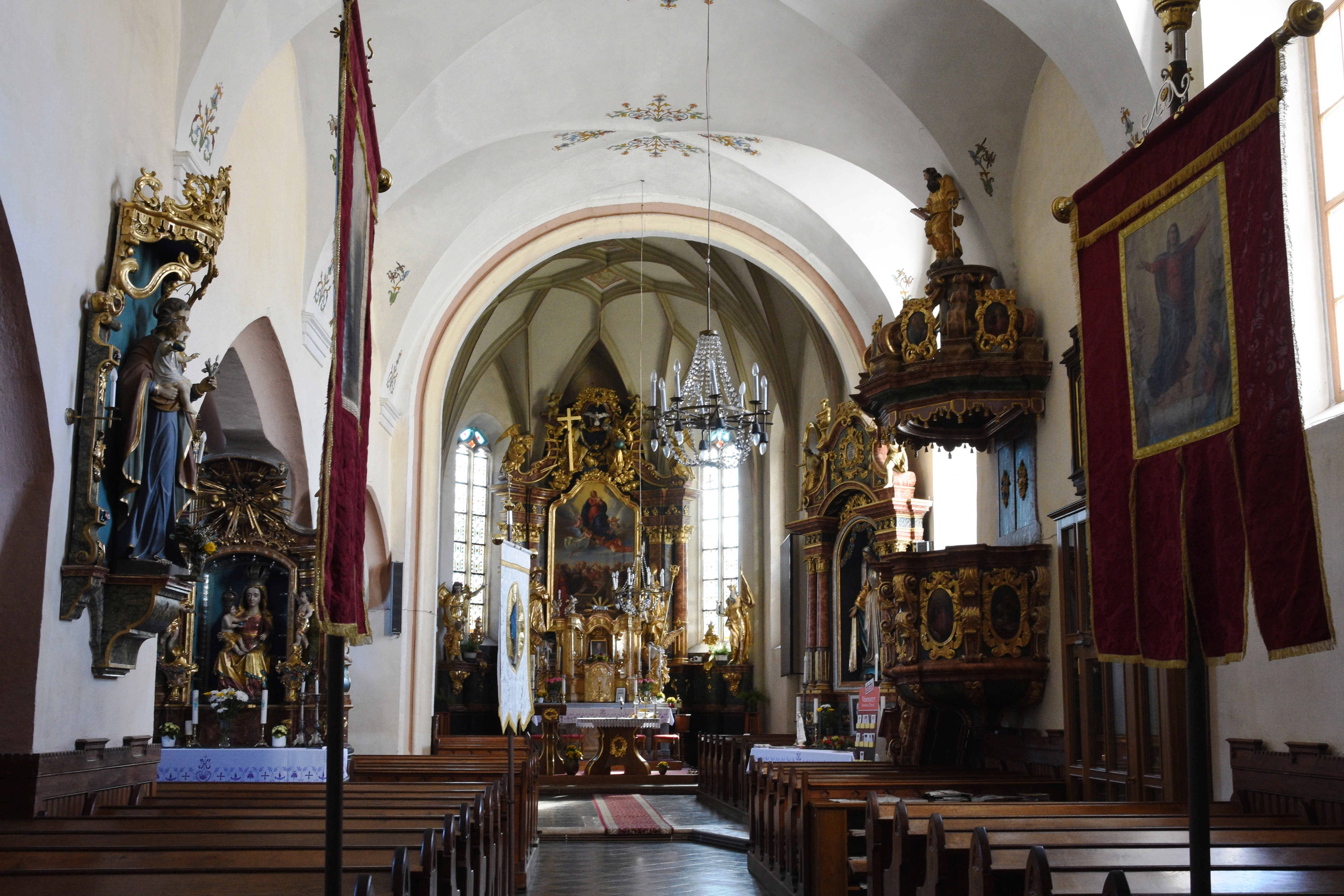 Church Assumption of Mary Parish Church (Apače) Interior